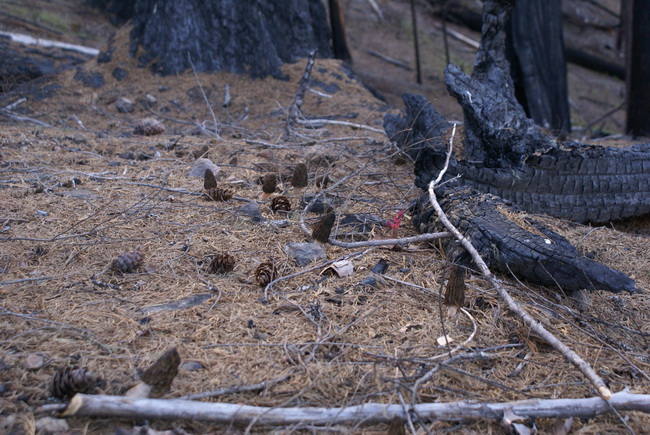 Morels find fertile ground after a fire in a boreal forest.